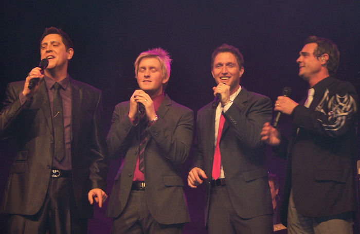 Ernie Haase & Signature Sound at a concert in Apeldoorn (NL)